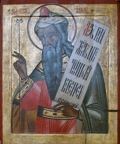 Aaron, Russian icon from first quarter of 18th cen.